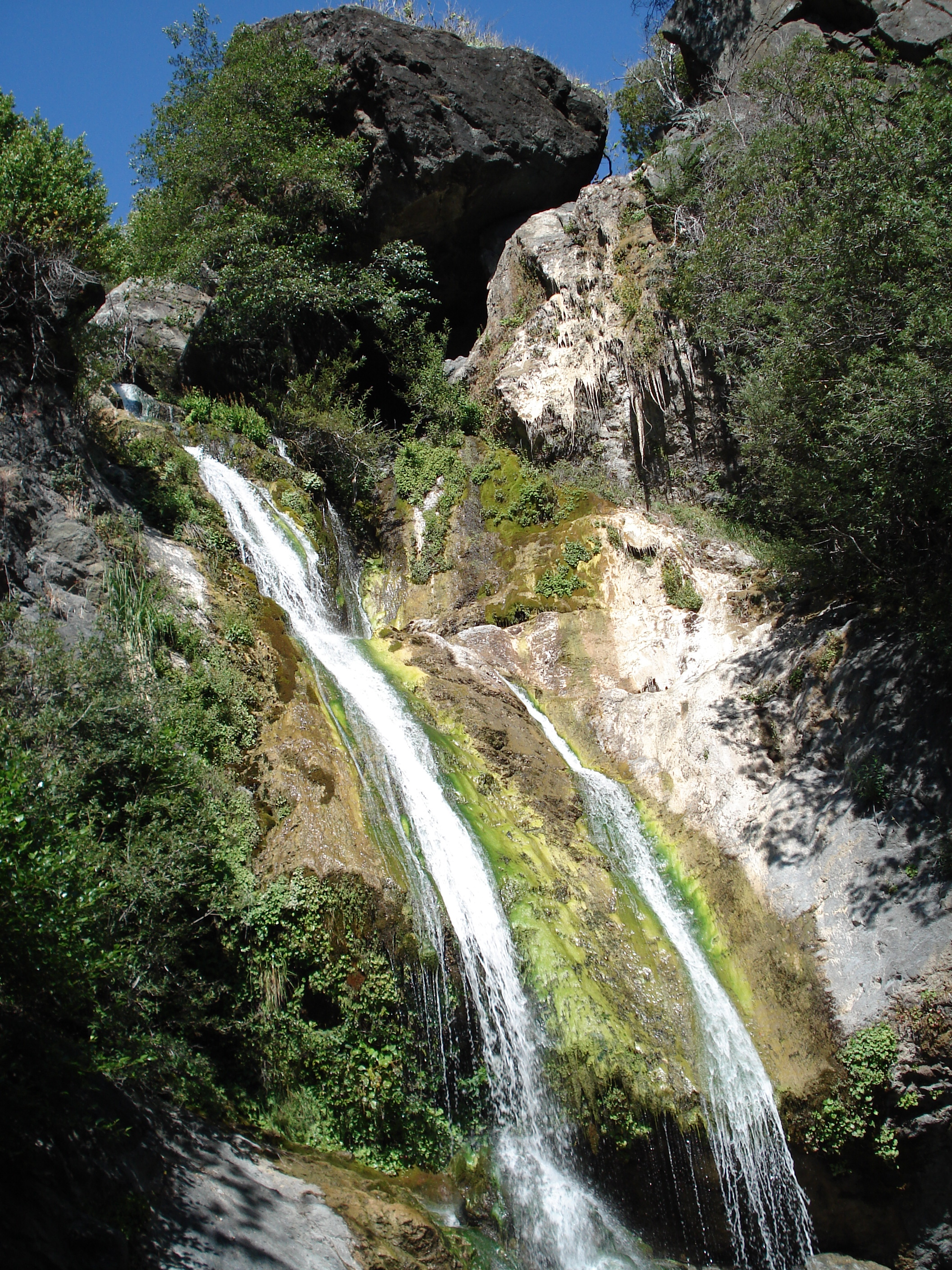 A waterfall has a top, and a drop. This one was at the base of the Salmon Creek Trail in Big Sur.